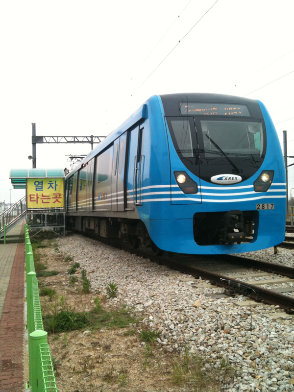 Commuter train stopped at Yongyu station.